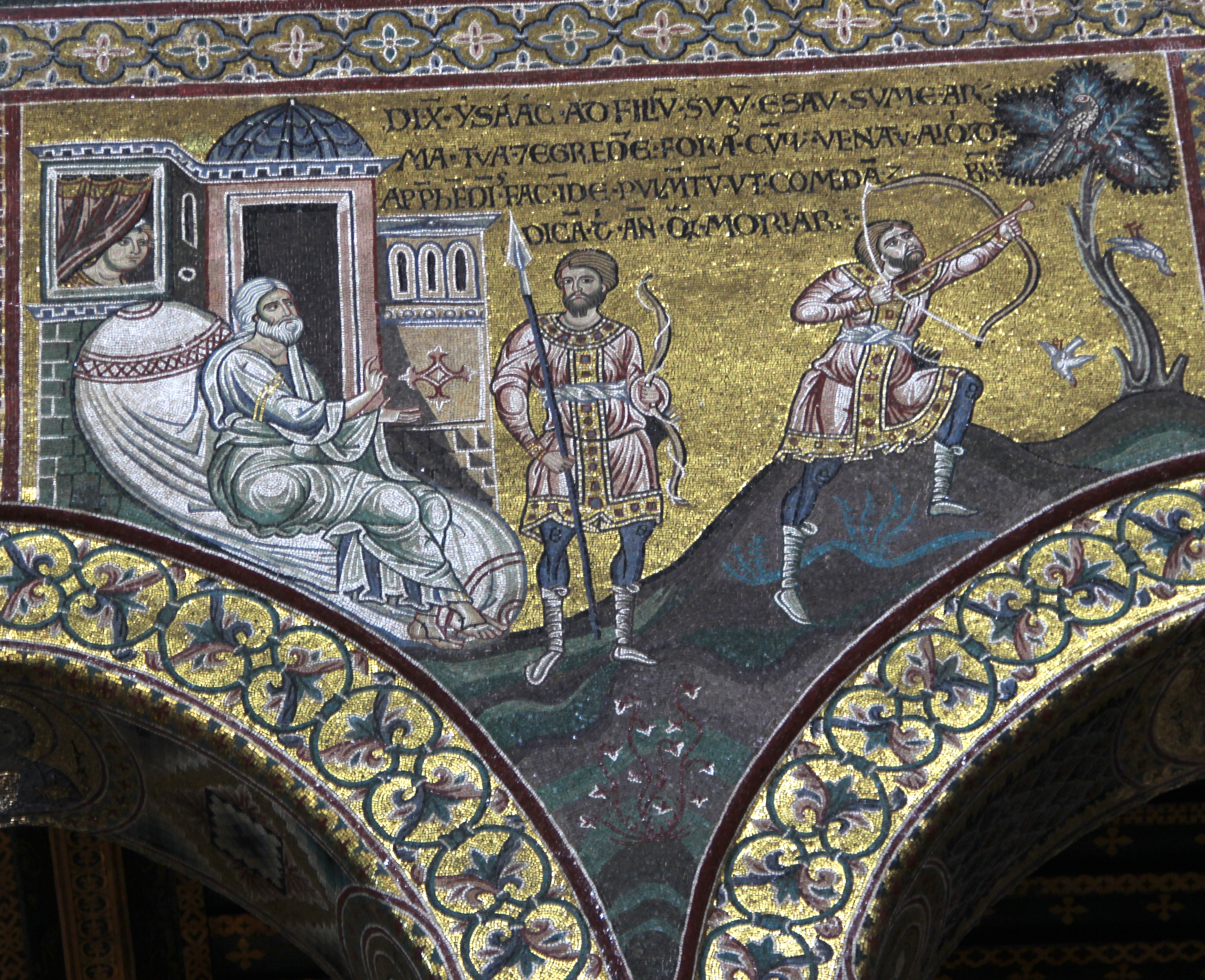 Isaac said to Esau: Get your equipment—your quiver and bow—and go out to the open country to hunt some wild game for me. (Genesis 27, 3)